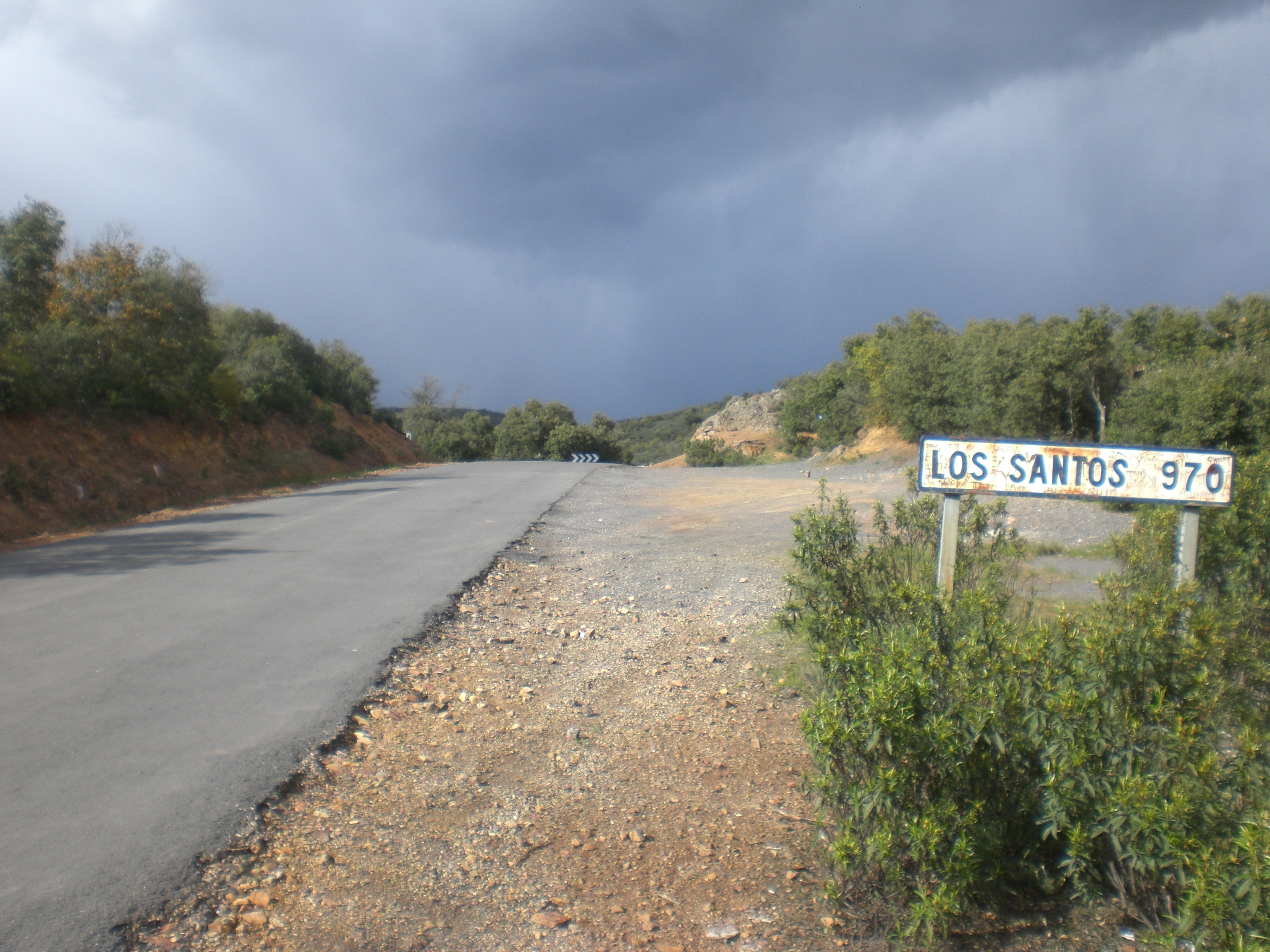 "Puerto de los Santos" mountain pass in Villarrubia de los Ojos (Ciudad Real - Spain)